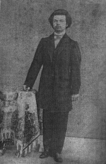 Ivan Pophristov